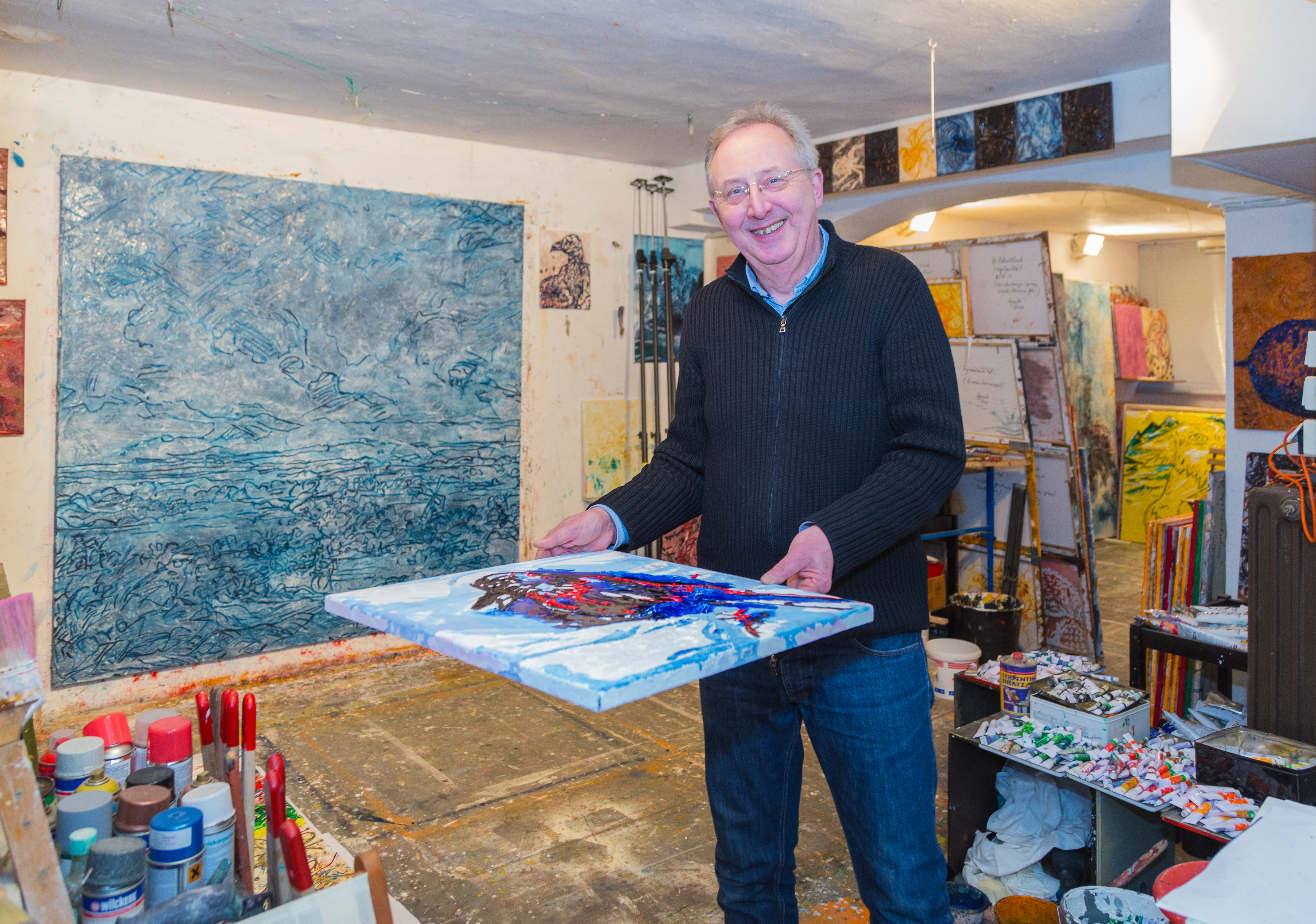 German painter and sculptor Bernhard Sprute at his atelier in Bad Oeynhausen, Kreis Minden-Lübbecke, North Rhine-Westphalia, Germany. Here Sprute holds his newest painting, Vogelporträt mit Hirsch (2018, 50x50 cm). The large painting in the background is his work painting Landschaft nach Ruisdael (2013, 200x200 cm).